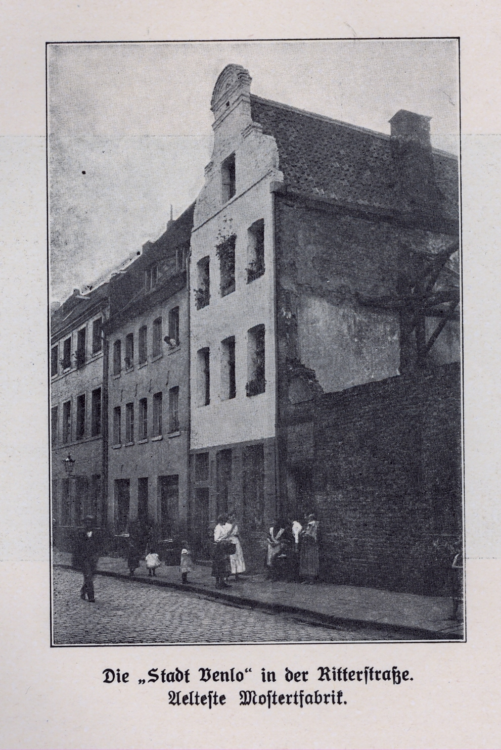 Düsseldorf, Ritterstrasse, Haus Nr. 30 "Stadt Venlo", in dem Gottfried Esser 1773 den Düsseldorfer Senf herstellte.jpg